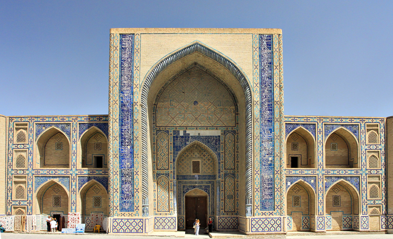 Ulugh bek madrasah in Bukhara.